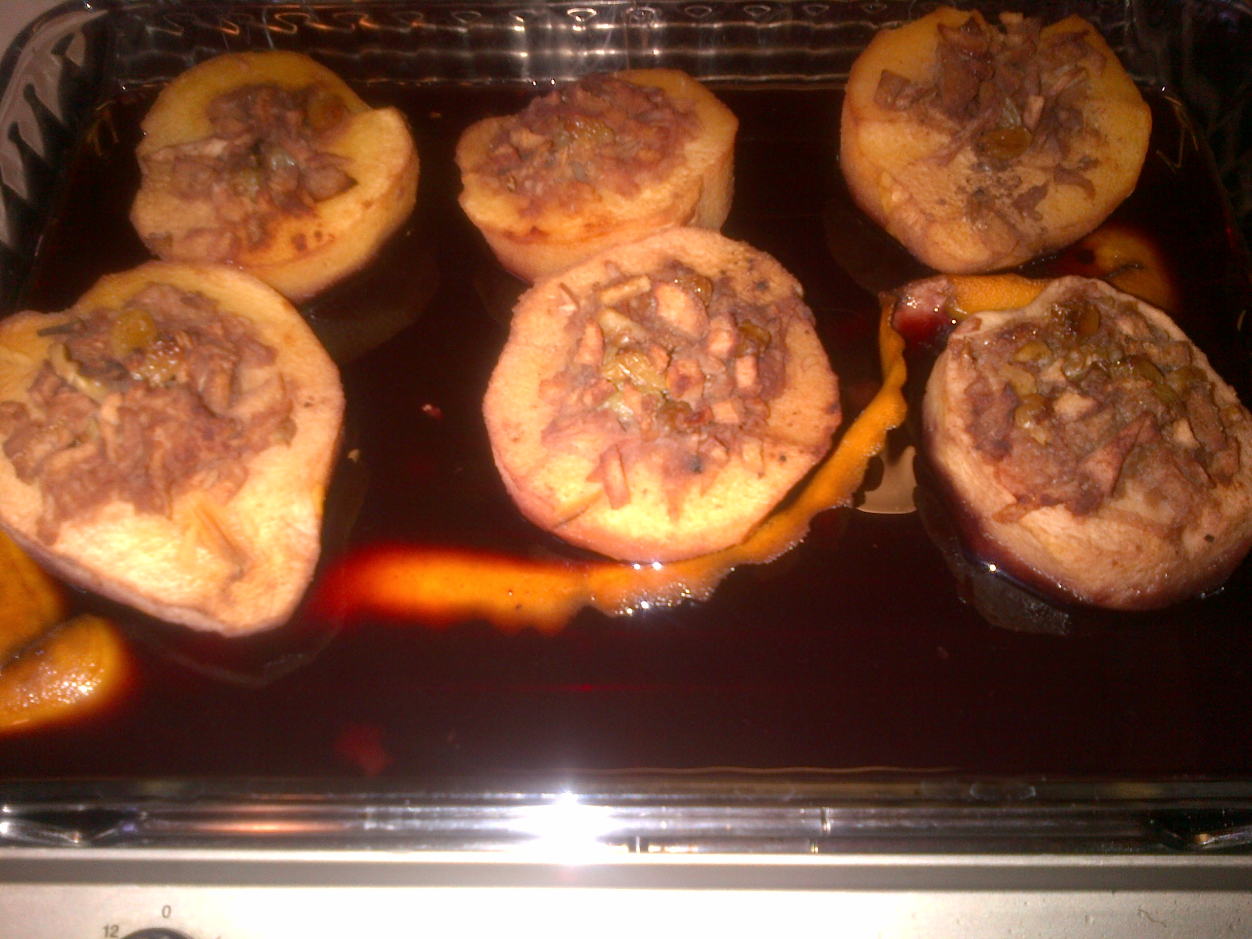 Ayva tatlısı or Quince dessert, from the Turkish cuisine, coming out of the oven. I like to use red wine for colour and orange peels for aroma. They will be served with "kaymak", as they already have walnuts inside.